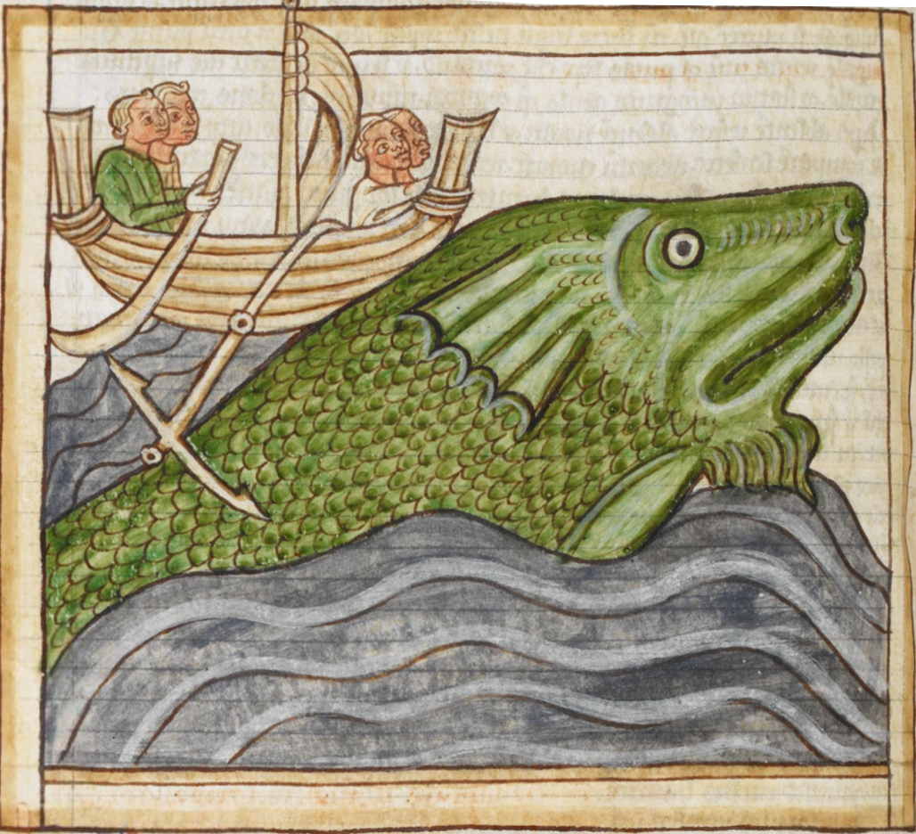 Whale - Bestiary Harley MS 3244, ff 36r-71v